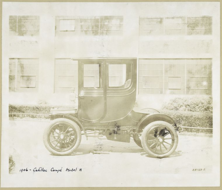 Cadillac 1907 Model M Coupe Note: The information on the front of the photograph is wrong. The short hood indicates that this is a Model M of 1907. The Model H had a much longer hood. Digital ID: 481997 Source: Photographs of General Motors and Chrysler car and truck models, 1902 - 1938. / 1902-1938. Cadillac - Chrysler - De Soto - Dodge - LaSalle - Plymouth. Photographs - Specifications. (more info) Repository: The New York Public Library. Science, Industry and Business Library. General Collection Division. See more information about this image and others at NYPL Digital Gallery. Persistent URL: Rights Info: No known copyright restrictions; may be subject to third party rights (for more information, click here)